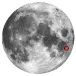 Description: Location of the Langrenus crater on the Moon. The marker also shows the proximity of the Bilharz, Atwood, Naonobu, Somerville, Barkla, and Acosta craters. Source: This is a modified version of a photo obtained from the NASA Planetary Photojournal. It was modified by RJHall. Width: 150 pixels Height: 150 pixels